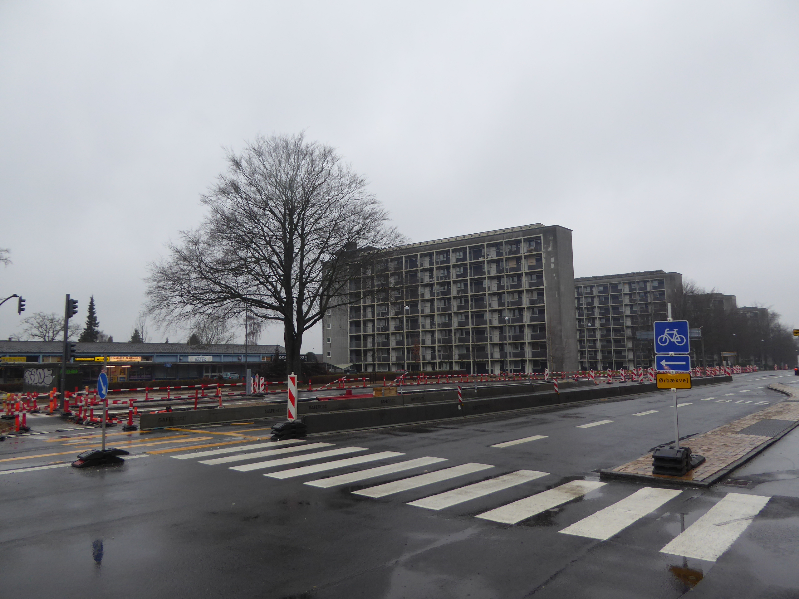 Construction of the future Korsløkke Station on Odense Letbane in Denmark.